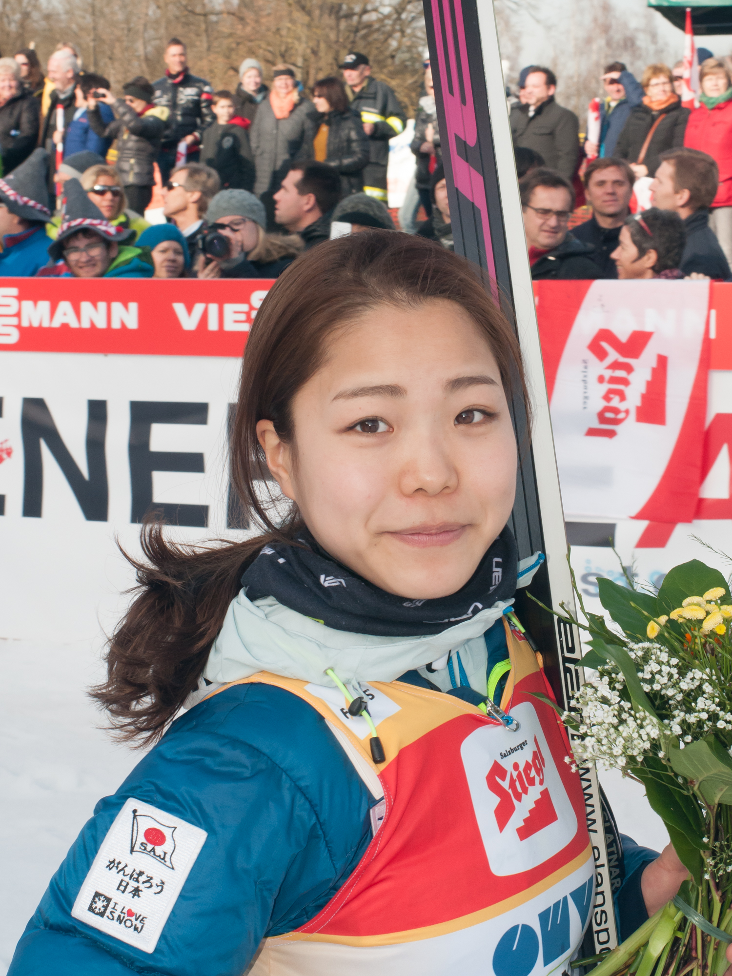 FIS Ski Jumping World Cup Ladies Hinzenbach 2016-02-07